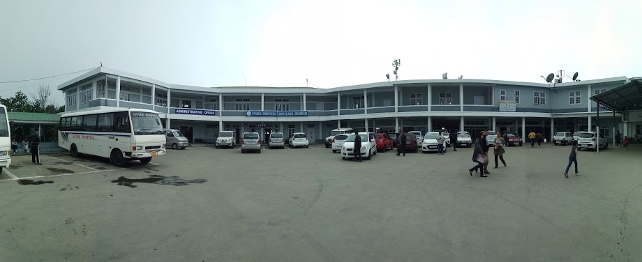 Durtlang Hospital Main Hospital